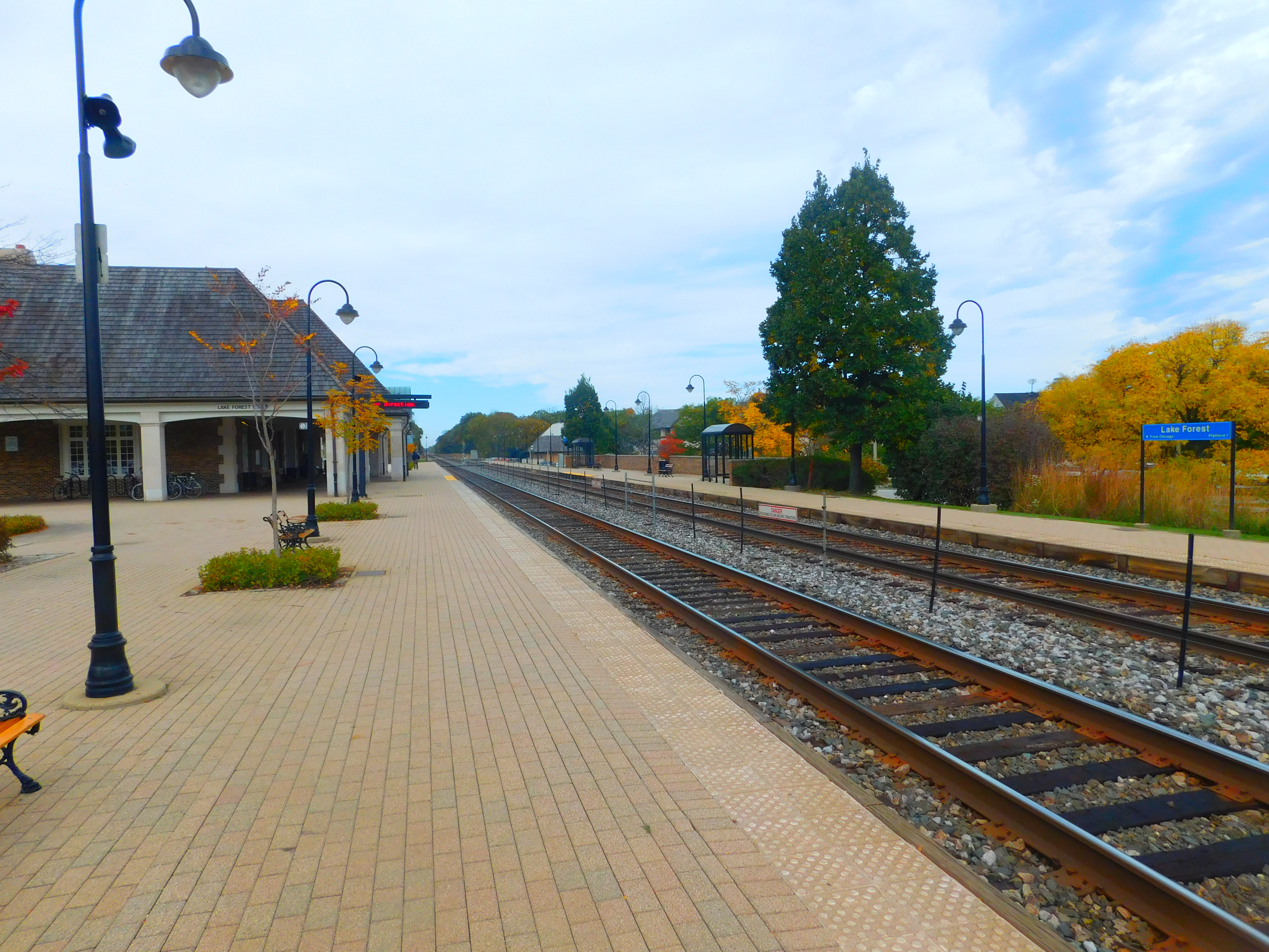 Lake Forest station on Metra in the western sections of Lake Forest, Illinois.